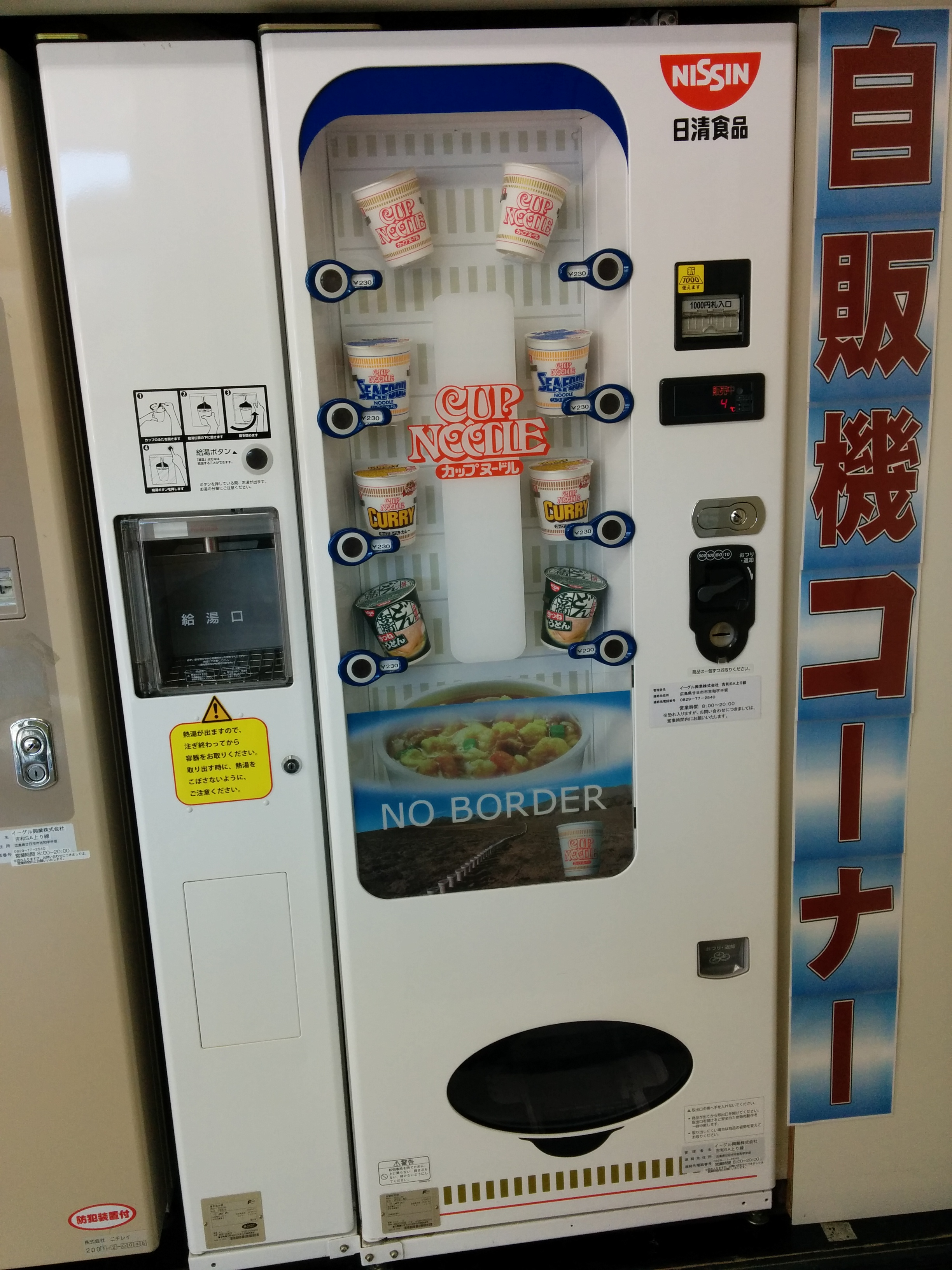 Cup Noodle vending machine installed at Yoshiwa Service Area on the Chugoku Expressway